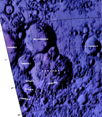 Berlage crater - annotated combined image of Color-coded LAC 133 and Color-coded LAC 142 from the USGS Digital Atlas